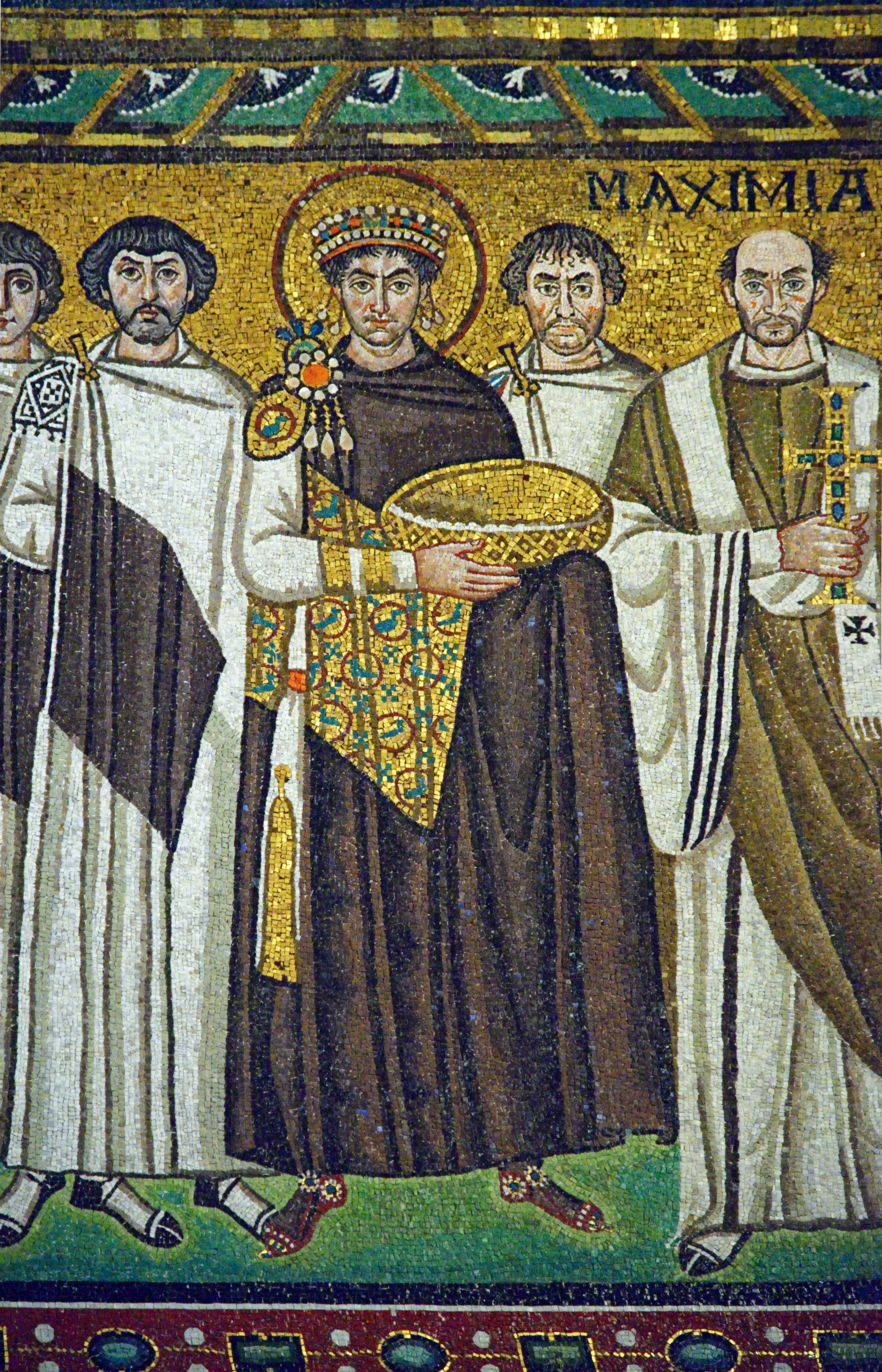 Emperor Justinian and his retinue. Detail of the mosaic in the Basilica of San Vitale. Ravena, Italy